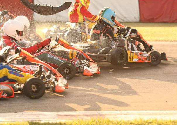 kart